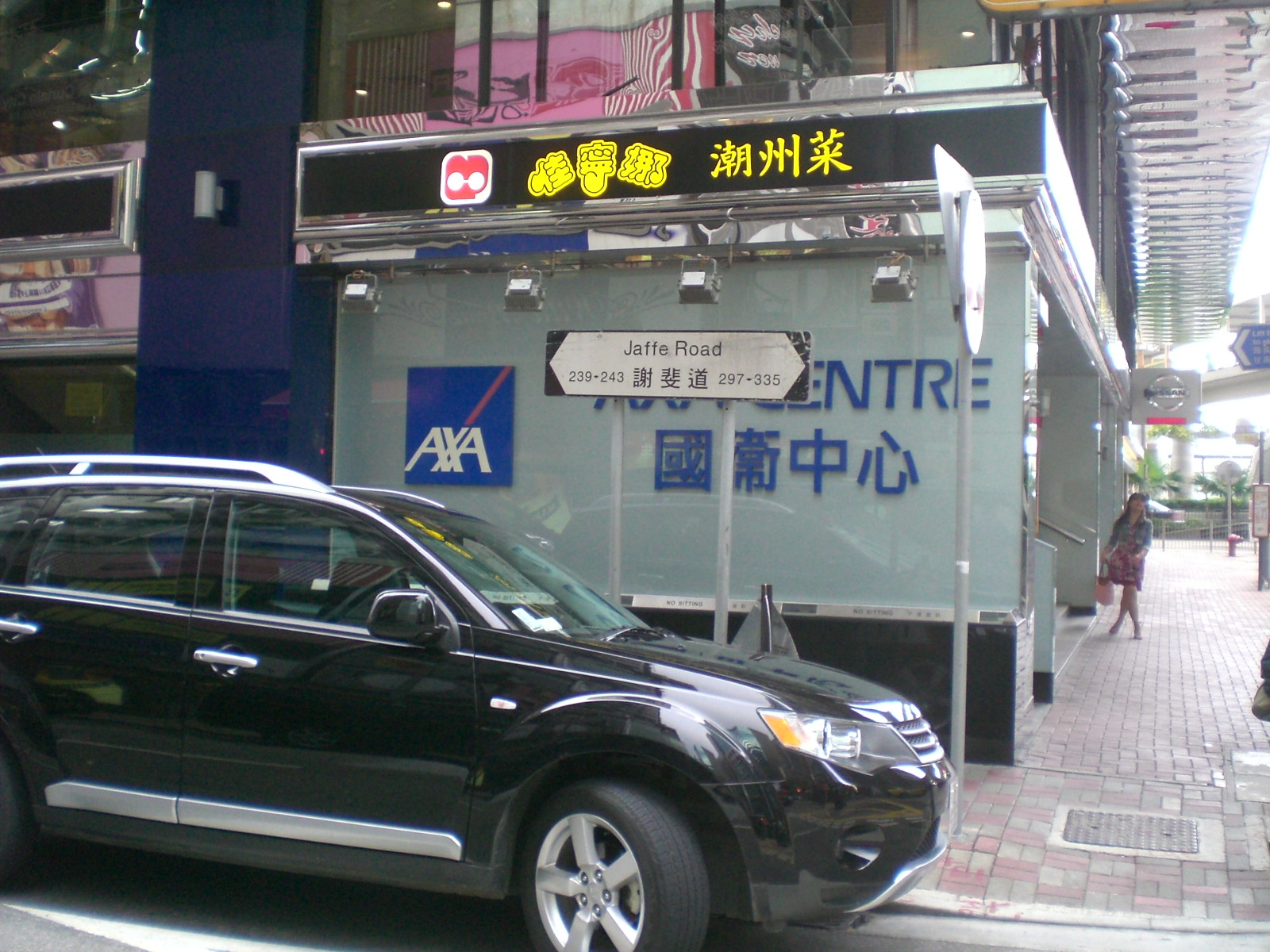 中文（香港）: AXA office building @ 謝斐道, AXA Centre, Jaffe Road, Wan Chai, Hong Kong.